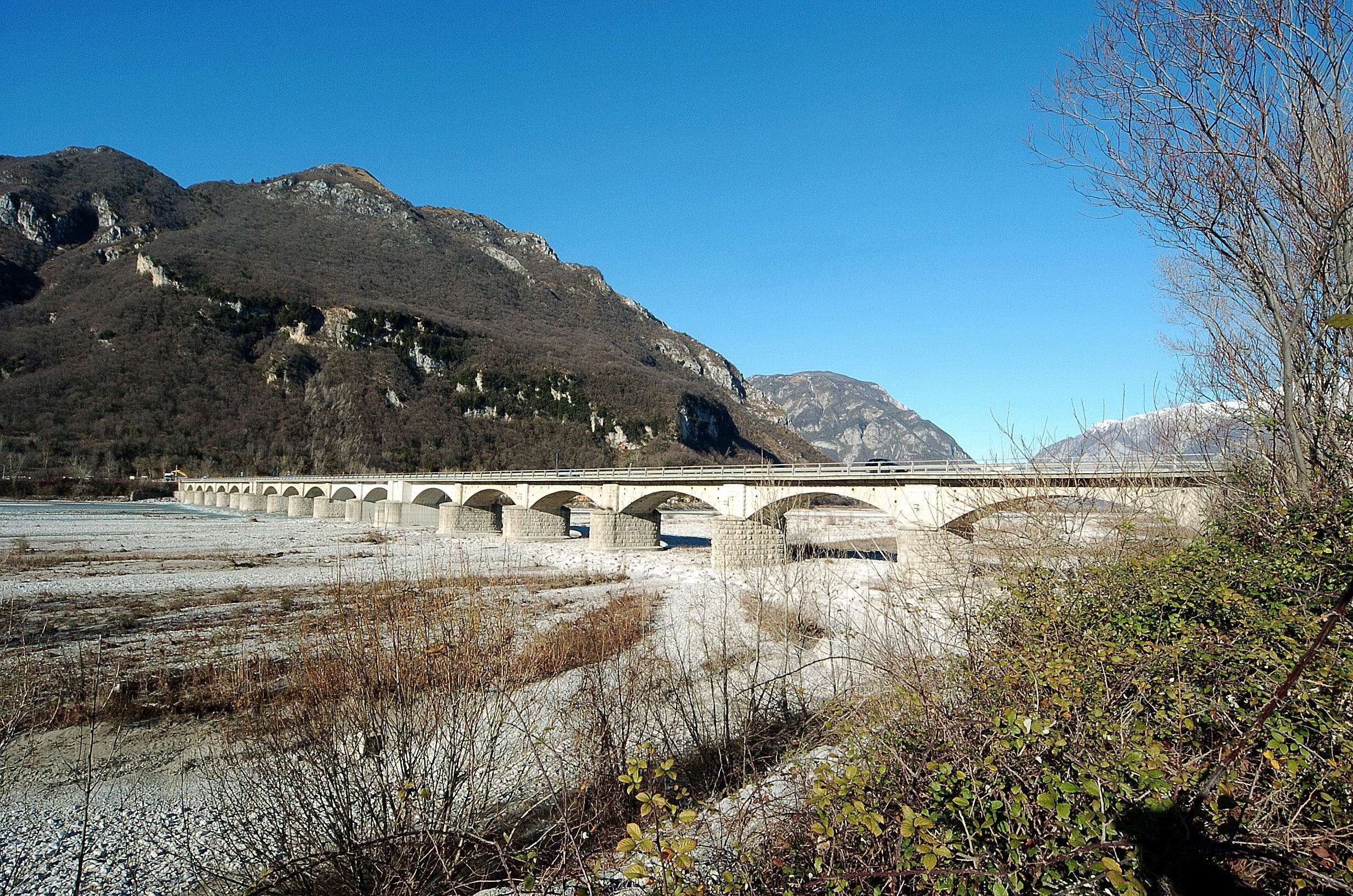 Road-bridge across the Tagliamento-river near Braulins, communities Trasaghis and Gemona del Friuli, Friuli-Venezia Giulia, Italy